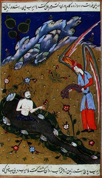 An imagining of Job from an illuminated manuscript version of Stories of the Prophets